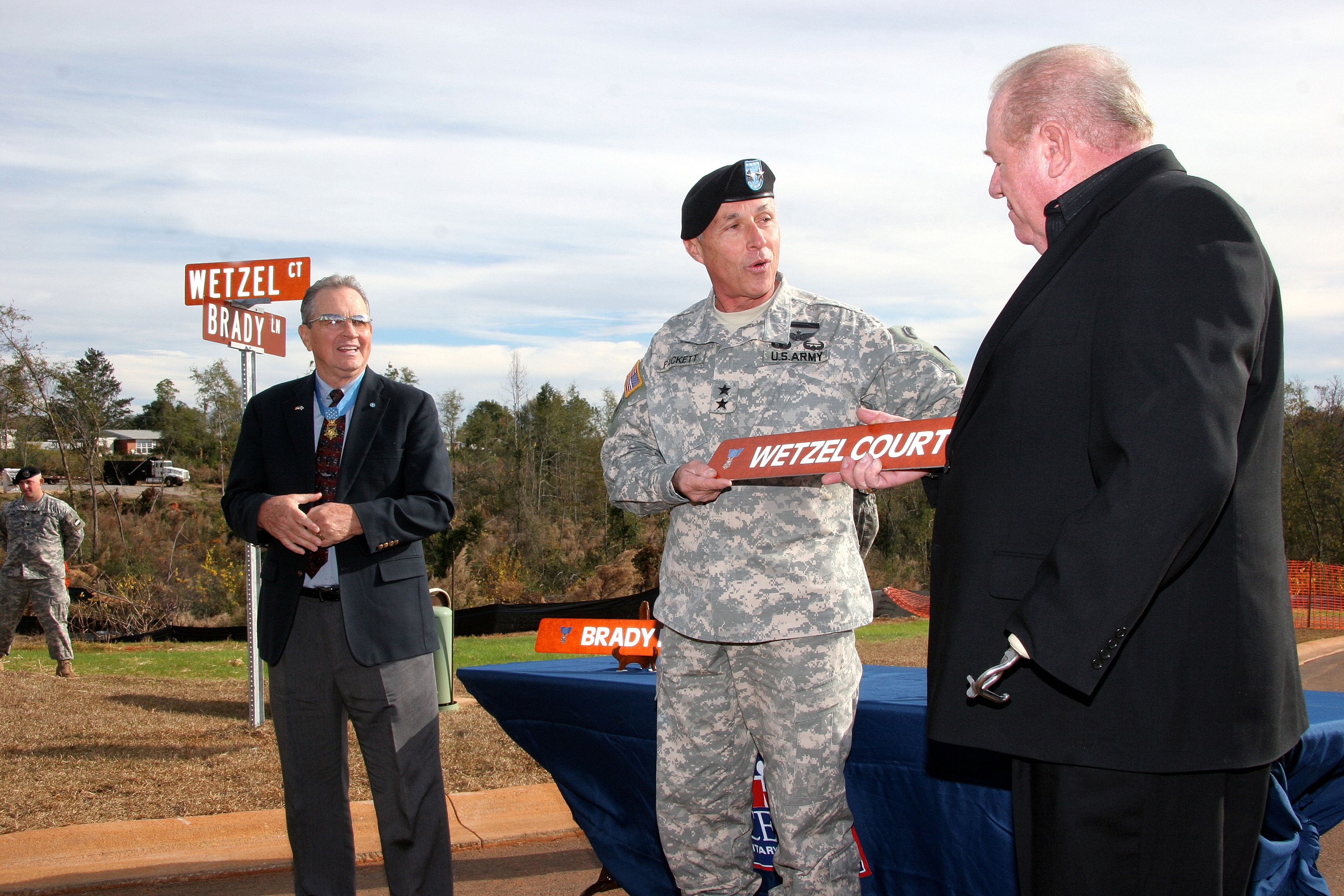 From left, retired Maj. Gen. Patrick H. Brady looks on while Maj. Gen. Virgil L. Packett III, commanding general of the U.S. Army Aviation Warfighting Center, presents a commemorative street sign to Gary G. Wetzel during a ceremony at Fort Rucker, Alabama, to name streets in their honor in a new housing development there on Dec. 3, 2007. Brady and Wetzel are both Vietnam War Medal of Honor recipients.